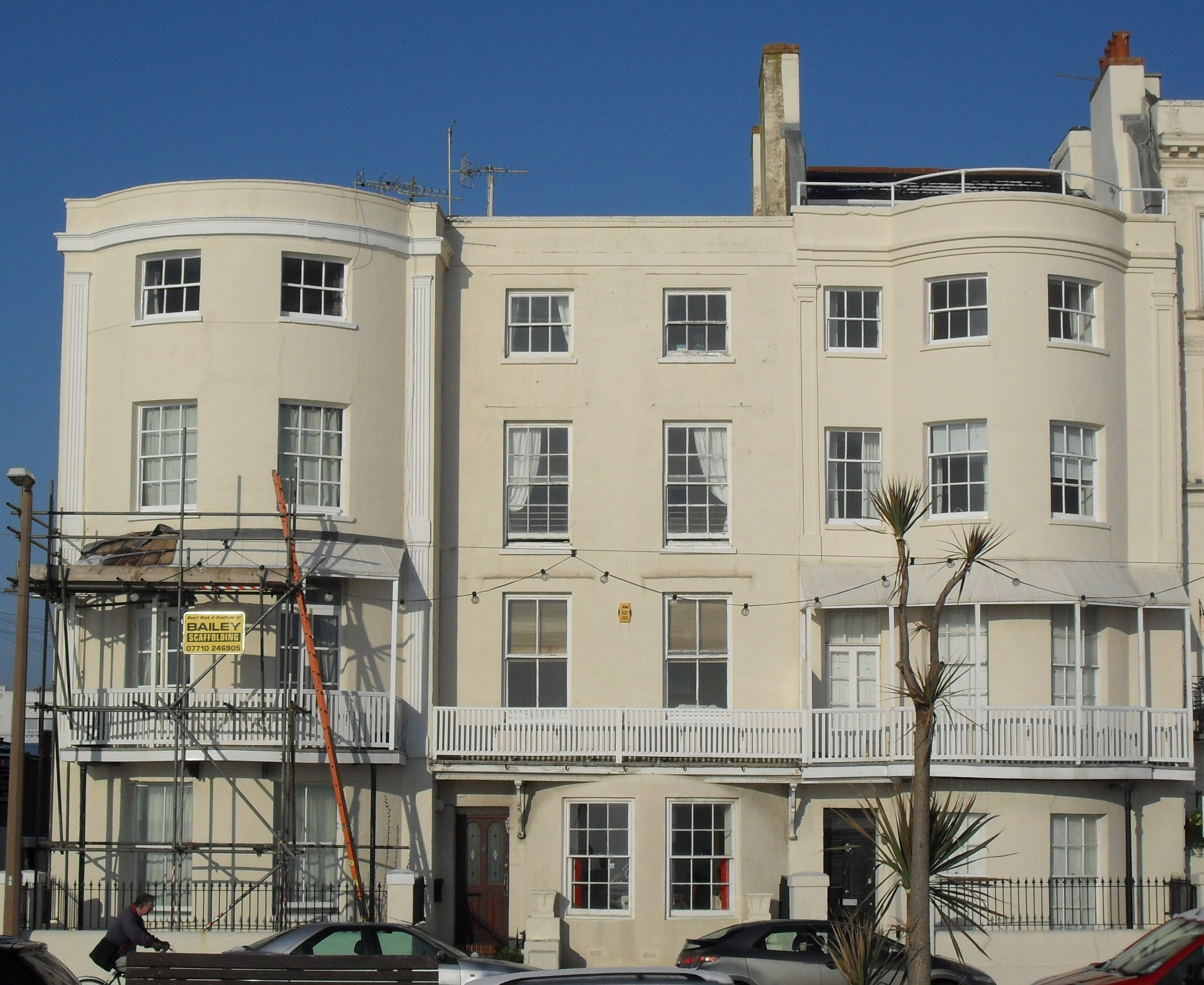 Early 19th-century terraced houses at 74, 75 and 76 Marine Parade, Worthing, West Sussex, England, seen from the south. Numbers 76 (left) and 74 (right) are bow-fronted. 74 has a mansard roof.